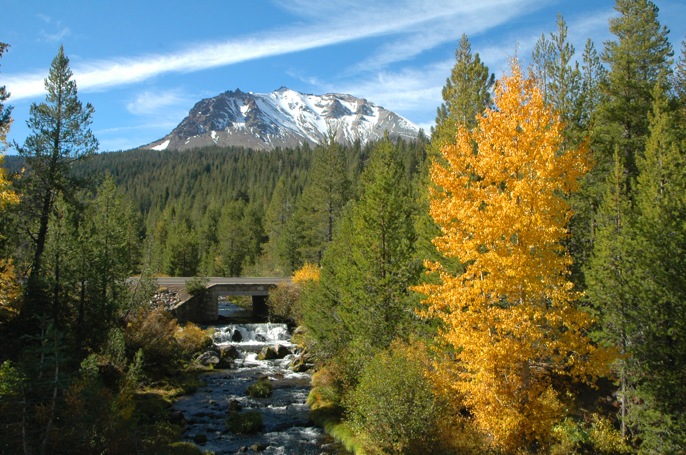 Hat Creek cottonwoods Autumn in Lassen Volcanic National Park